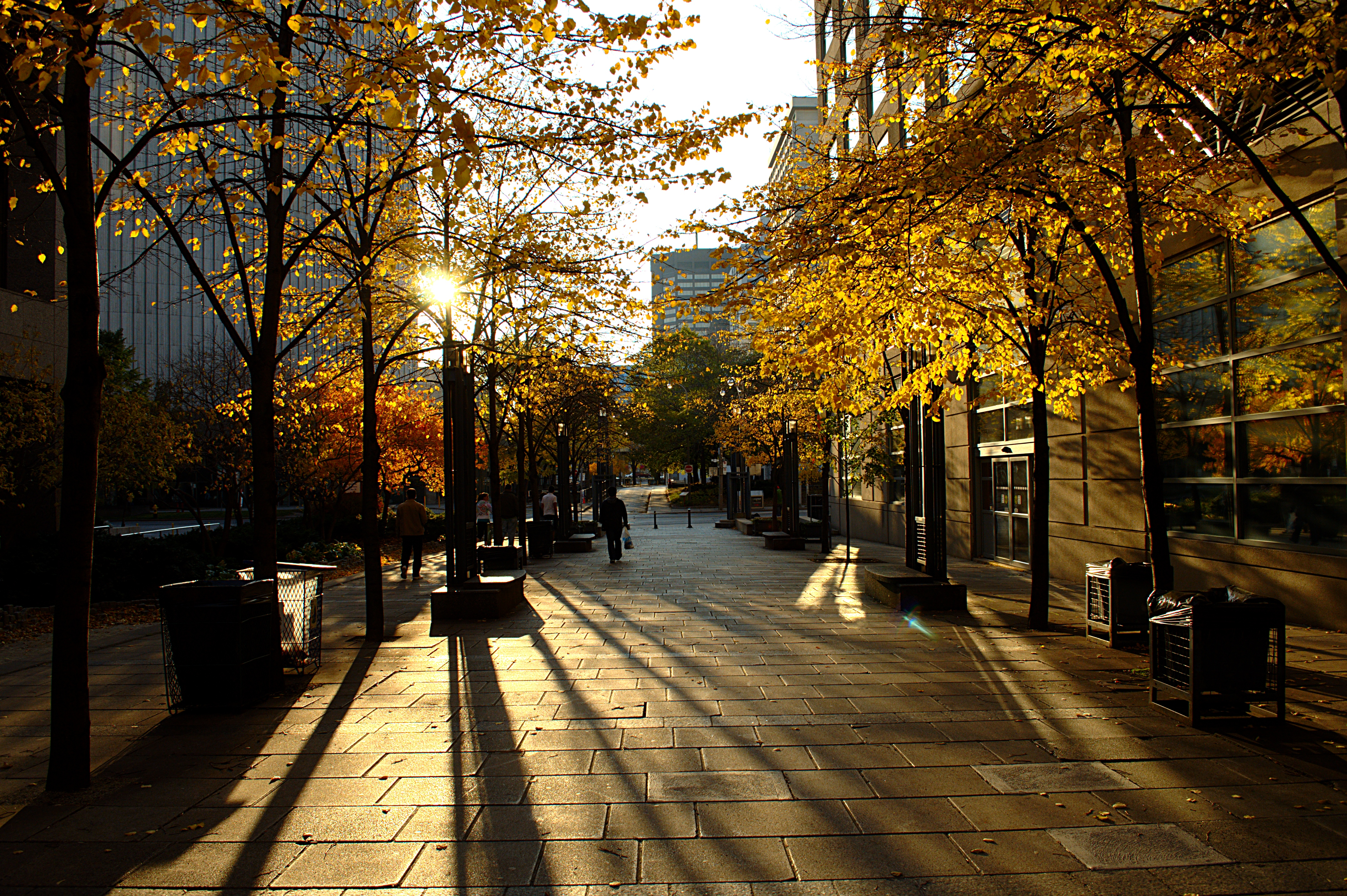 Rays of autumn light in Trinity Square, Toronto.